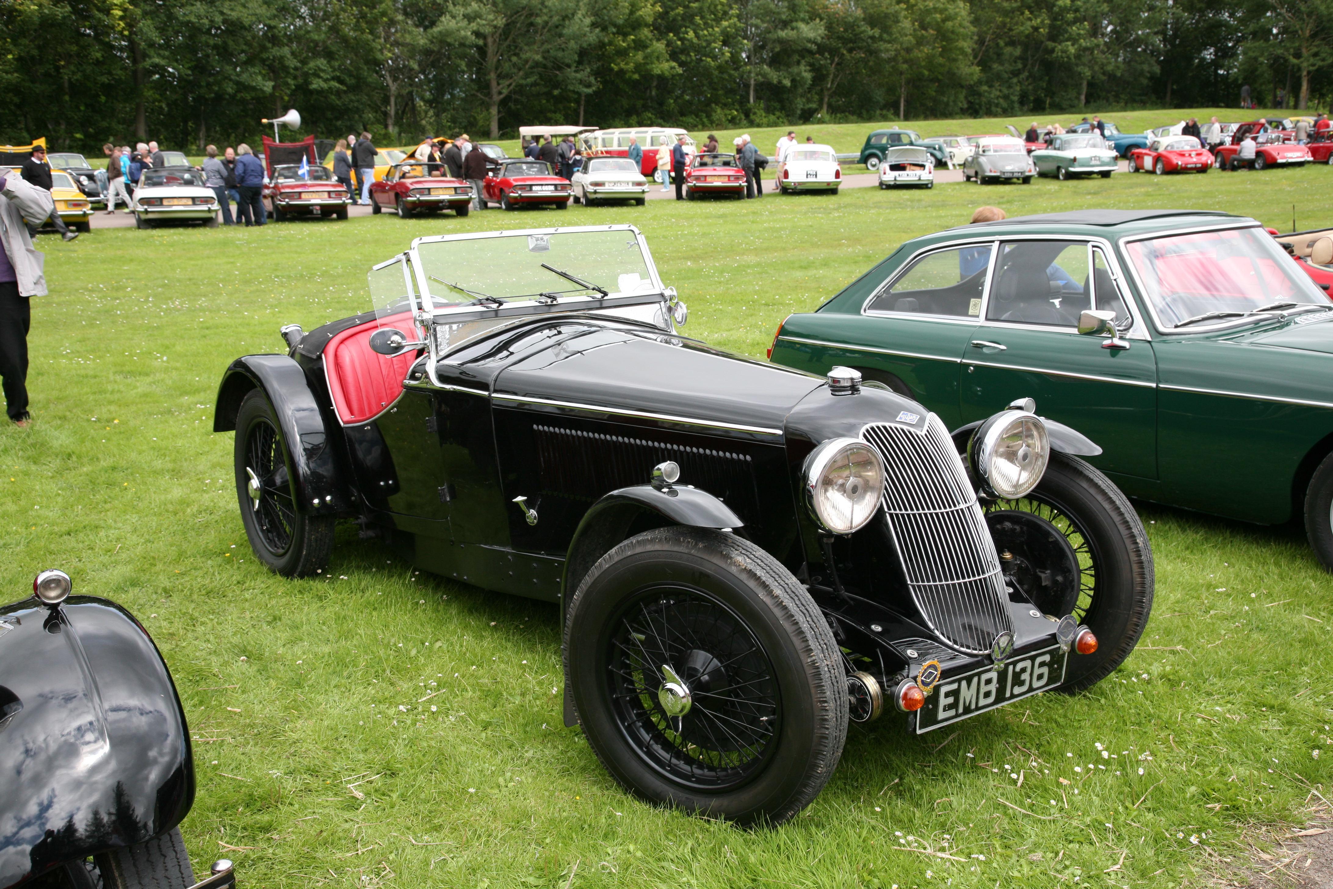 Riley Sprite open 2-seater 1938 (DVLA) first registered 18 January 1938 Grampian Transport Museum, Alford Aberdeenshire, 24th July 2011.